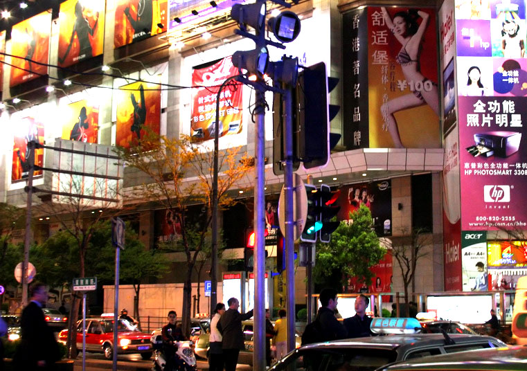 Photo by Piero Sierra, CC License. Hong Kong Plaza at Huaihai Road, Shanghai.